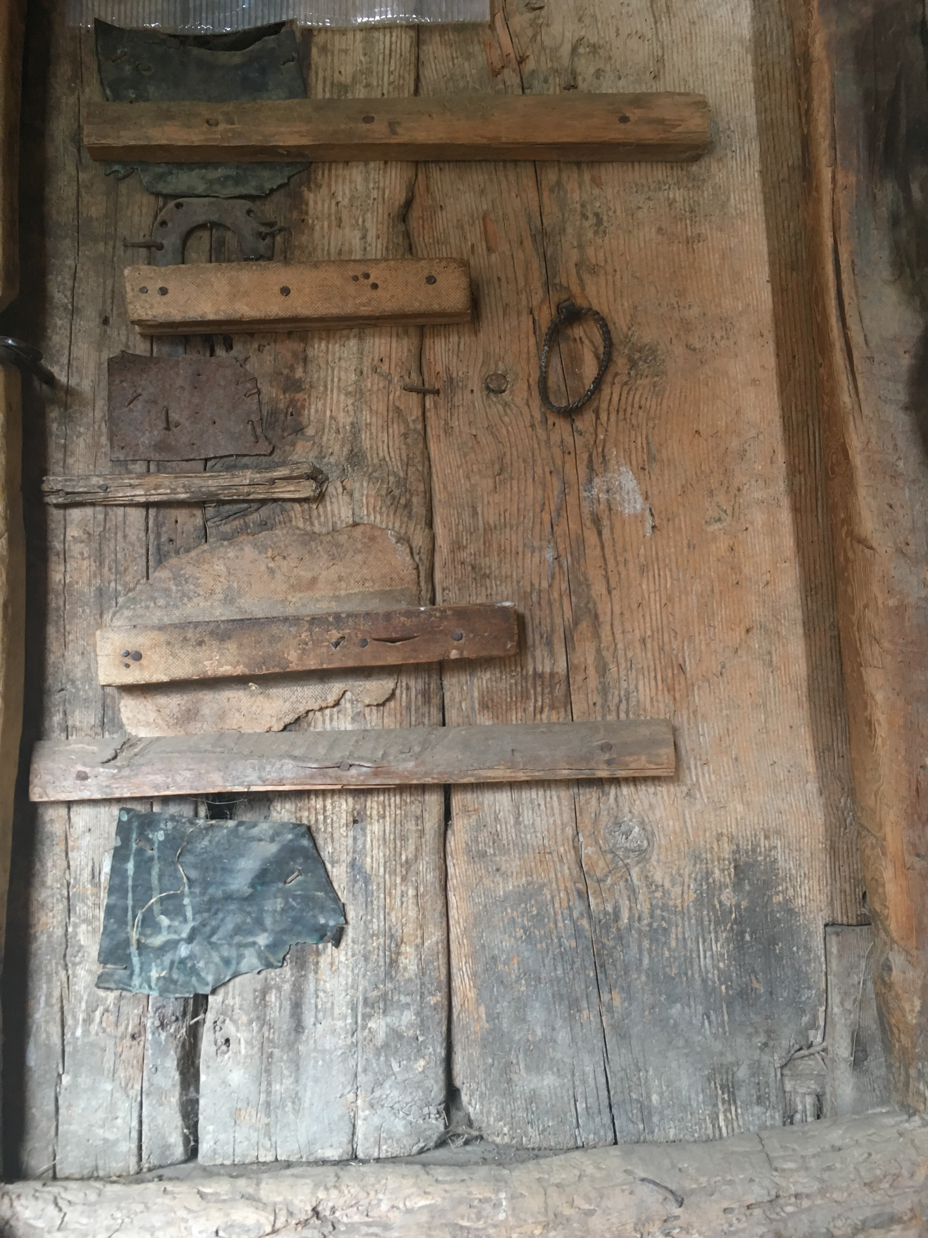 Assab village (Shamil district of Dagestan) March 15, 2020